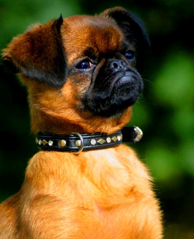 Petit Brabancon; Robbins Uranos - Gucci